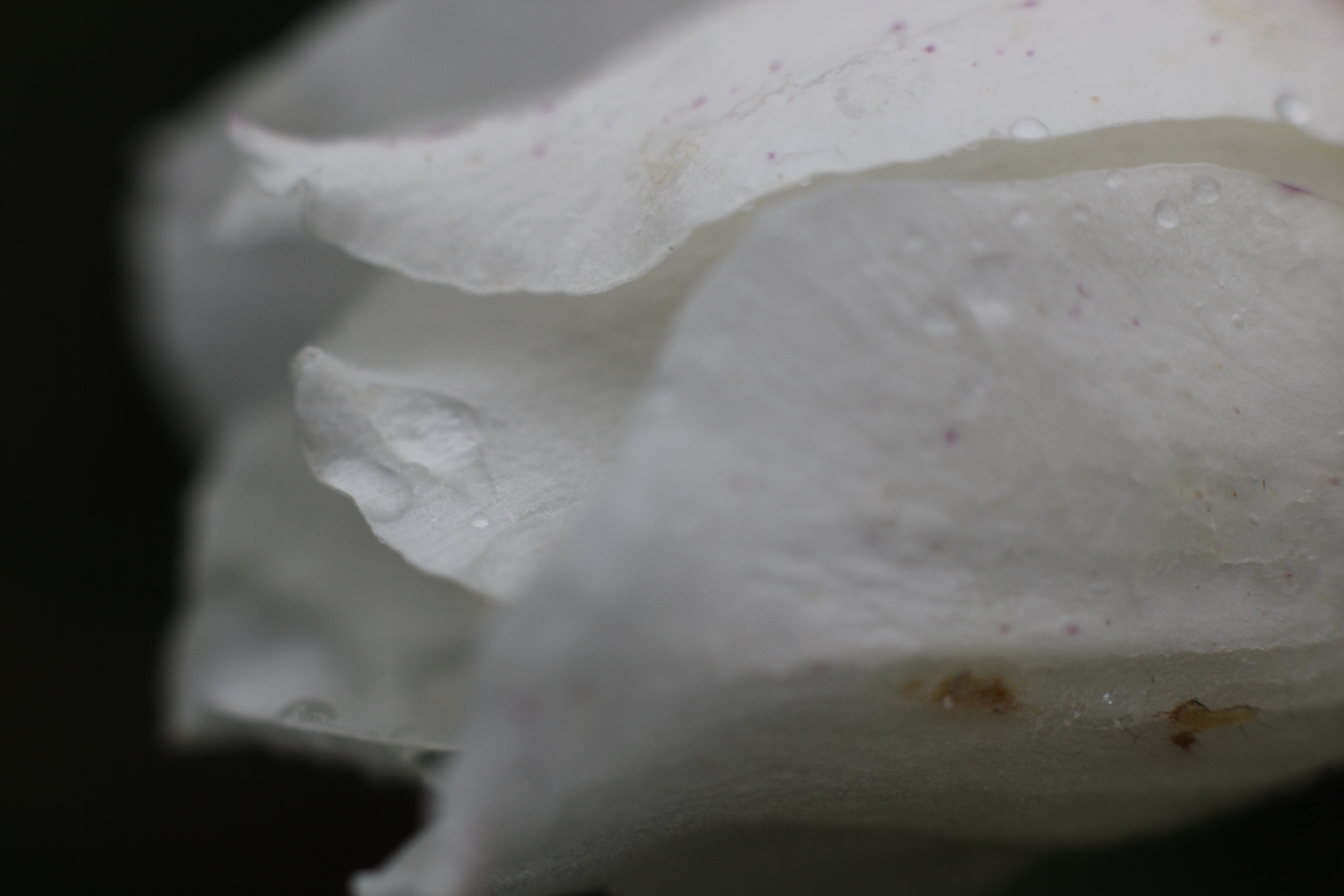 Blossom part of Anemone sylvestris, found in Meteliai regional park, Lithuania. Taken with Canon EOS camera using macro extenders